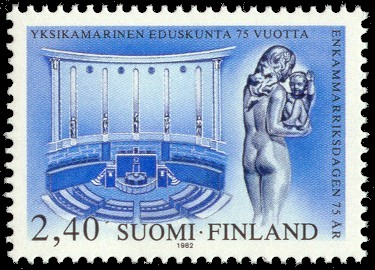 Postage stamp celebrating the 75th anniversary of the Finnish parliament